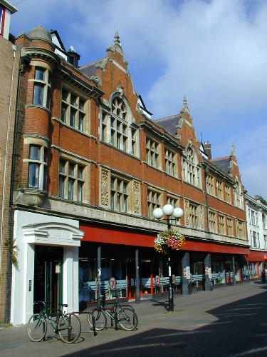 Burleigh Street: 62-74: former Cooperative Society. In the late 1980s/early 1990s, it housed the offices of IXI Ltd, a British software company of the era. One of the best façades in this part of the city, in 2000 the Cooperative no longer occupied the building. This building was demolished in the second quarter of 2003. In September 2004 Robert Sayle re-located to the new building constructed on this site in order that its original site on St Andrew's Street could itself be re-developed. Since 2009 the new building has been occupied by Primark.